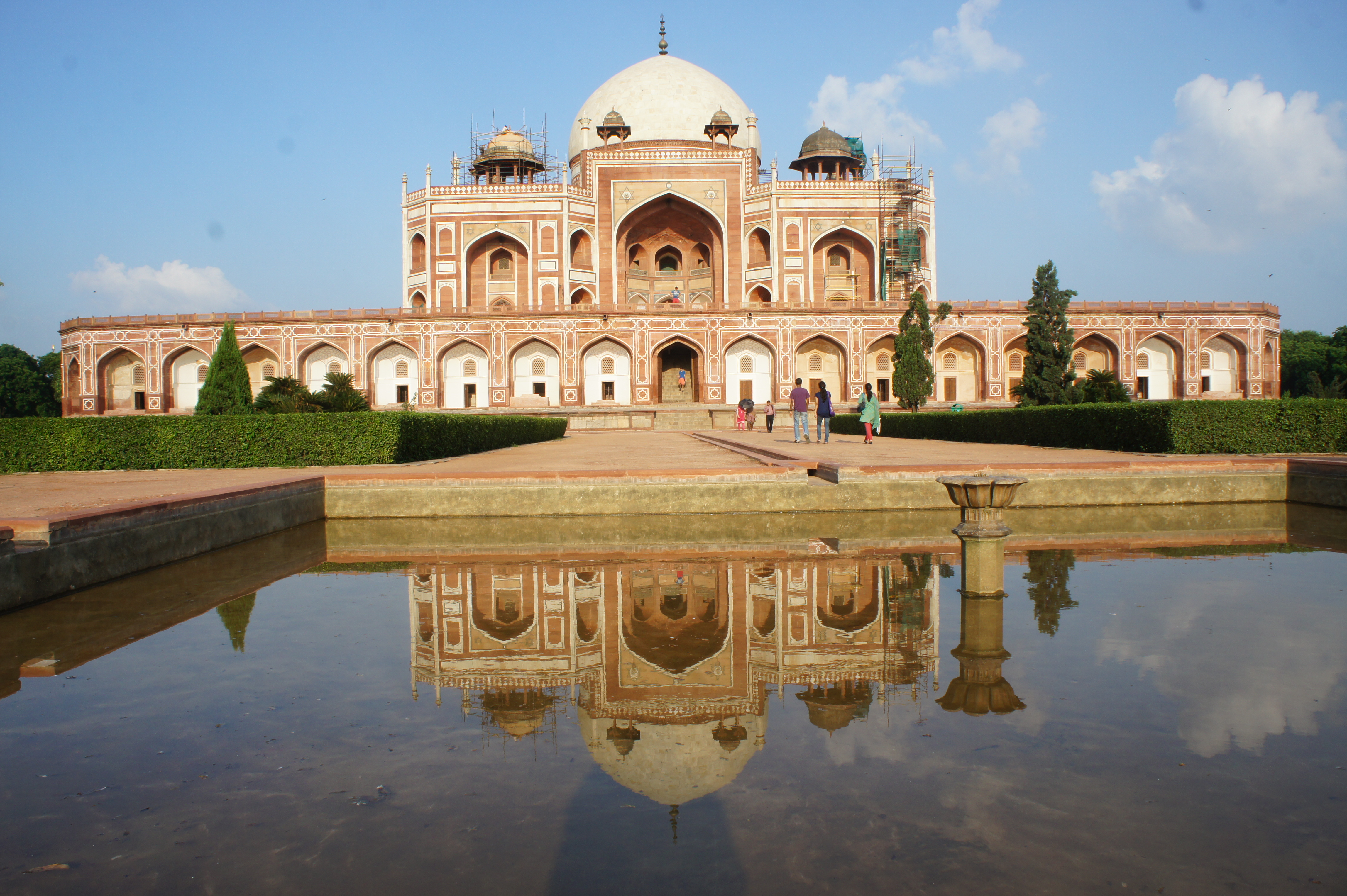 Humayun Tomb- photo contribution by